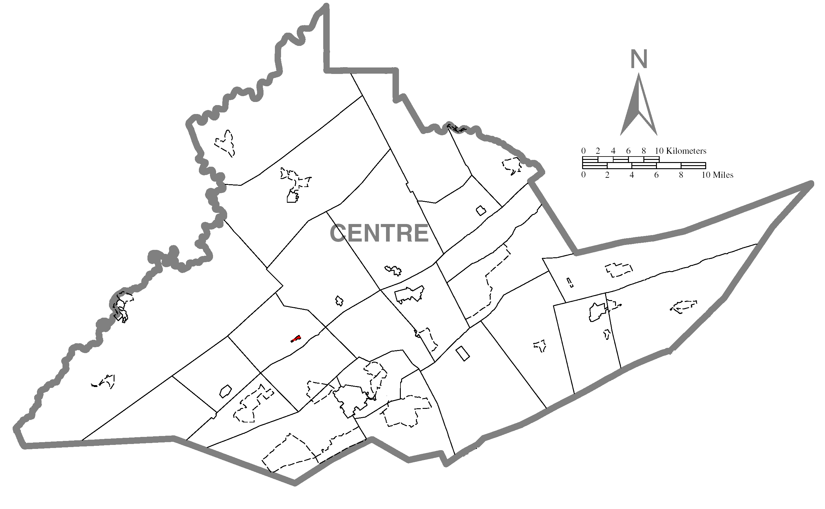 A map of Centre County showing Julian, Pennsylvania (alternate) highlighted on the map.